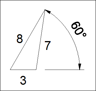 Triangle with sides of integer length and an angle of 60°